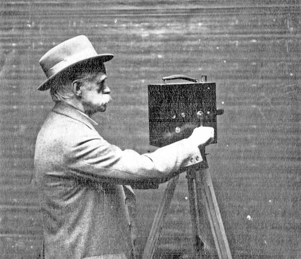 Frank Mottershaw (1850–1932), early English cinema director and founder of the Sheffield Photo Company.